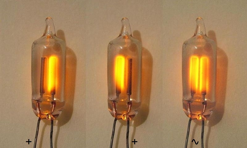 Neon lamps (type NE2, 1.9 cm (0.75 in) long). The voltages across the lamps are left: DC (left lead positive), middle: DC (right lead positive), and right: AC.